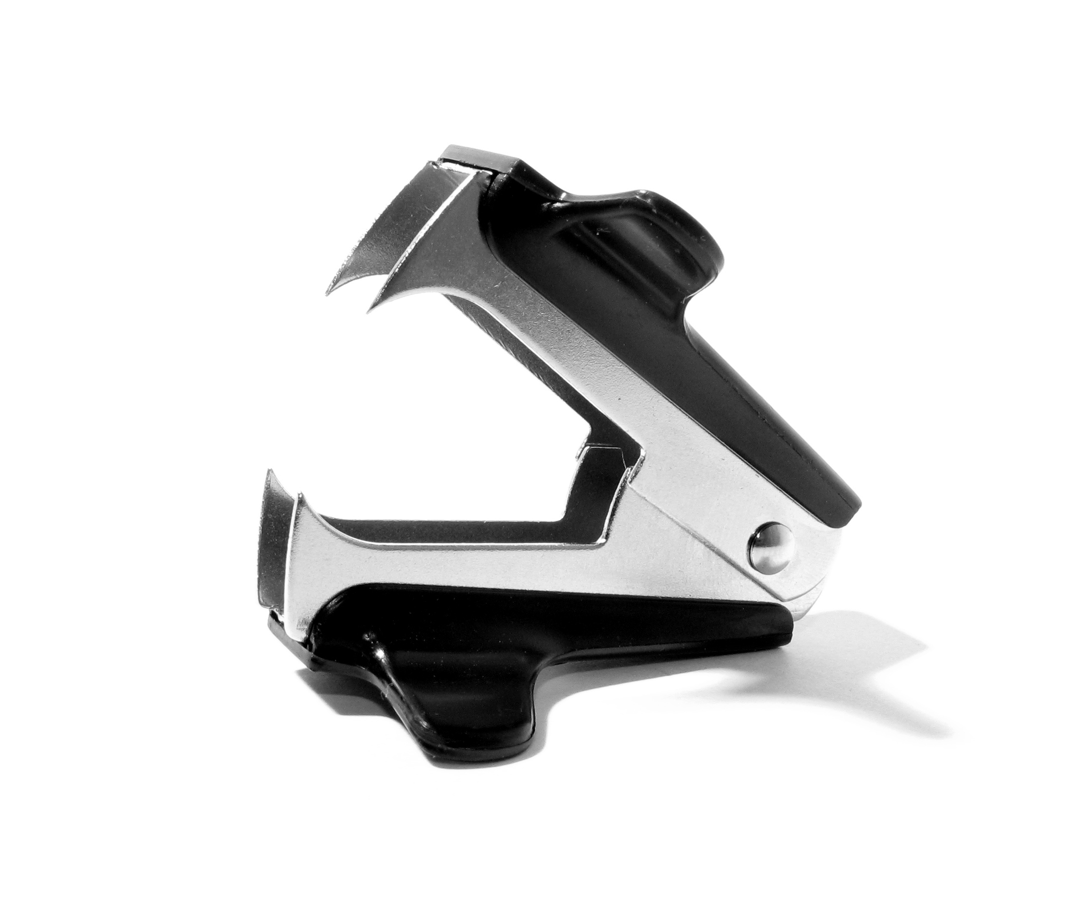 Staple remover